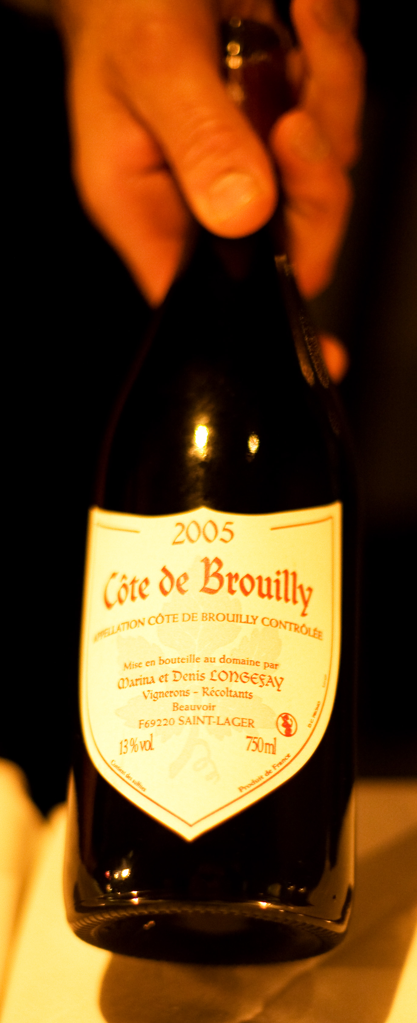 Bottle of Cote de Brouilly Beaujolais wine. Photo by Charles Haynes. Uploaded to flickr on August 3rd, 2007